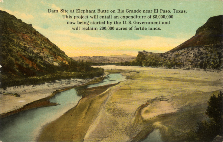 River bed, Rio Grande River, Canyon